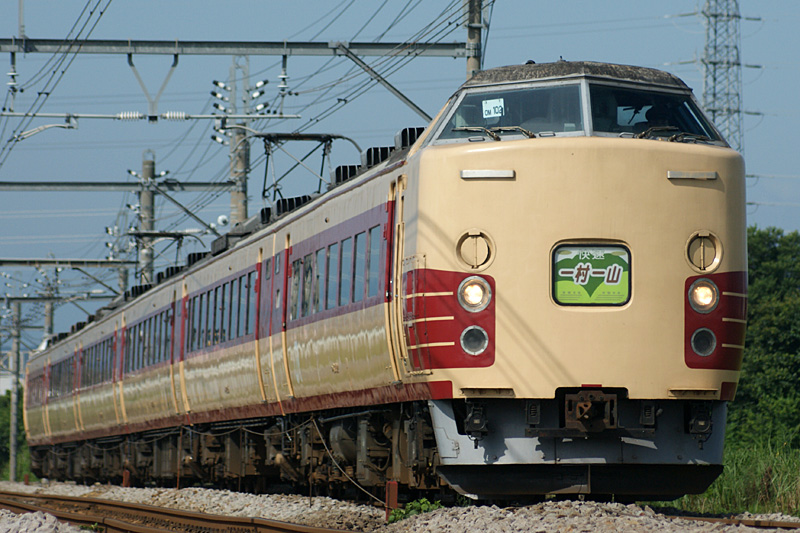 JR East 183 series EMU, rapid "Isson-ichiyama".